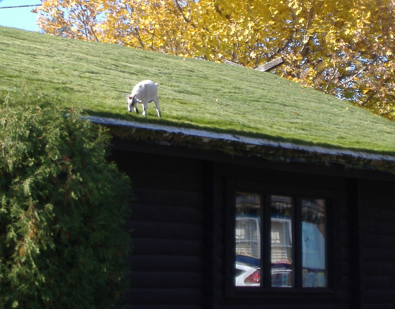 Al Johnson's (5)